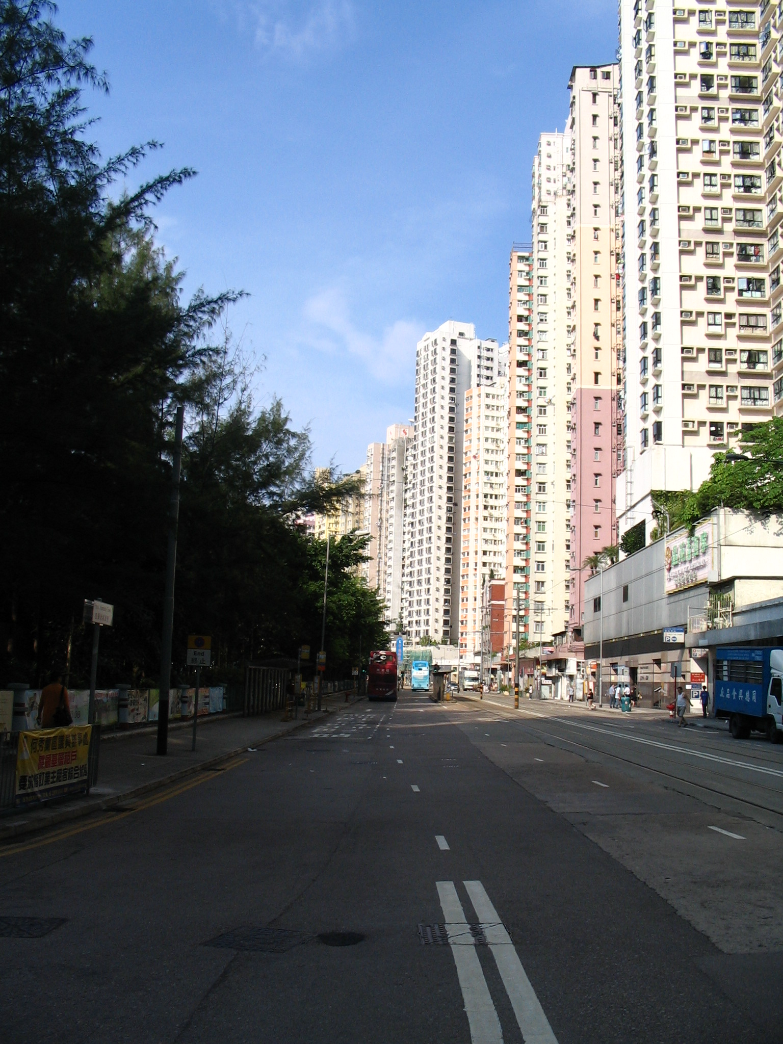 Photo of Kennedy Town Praya